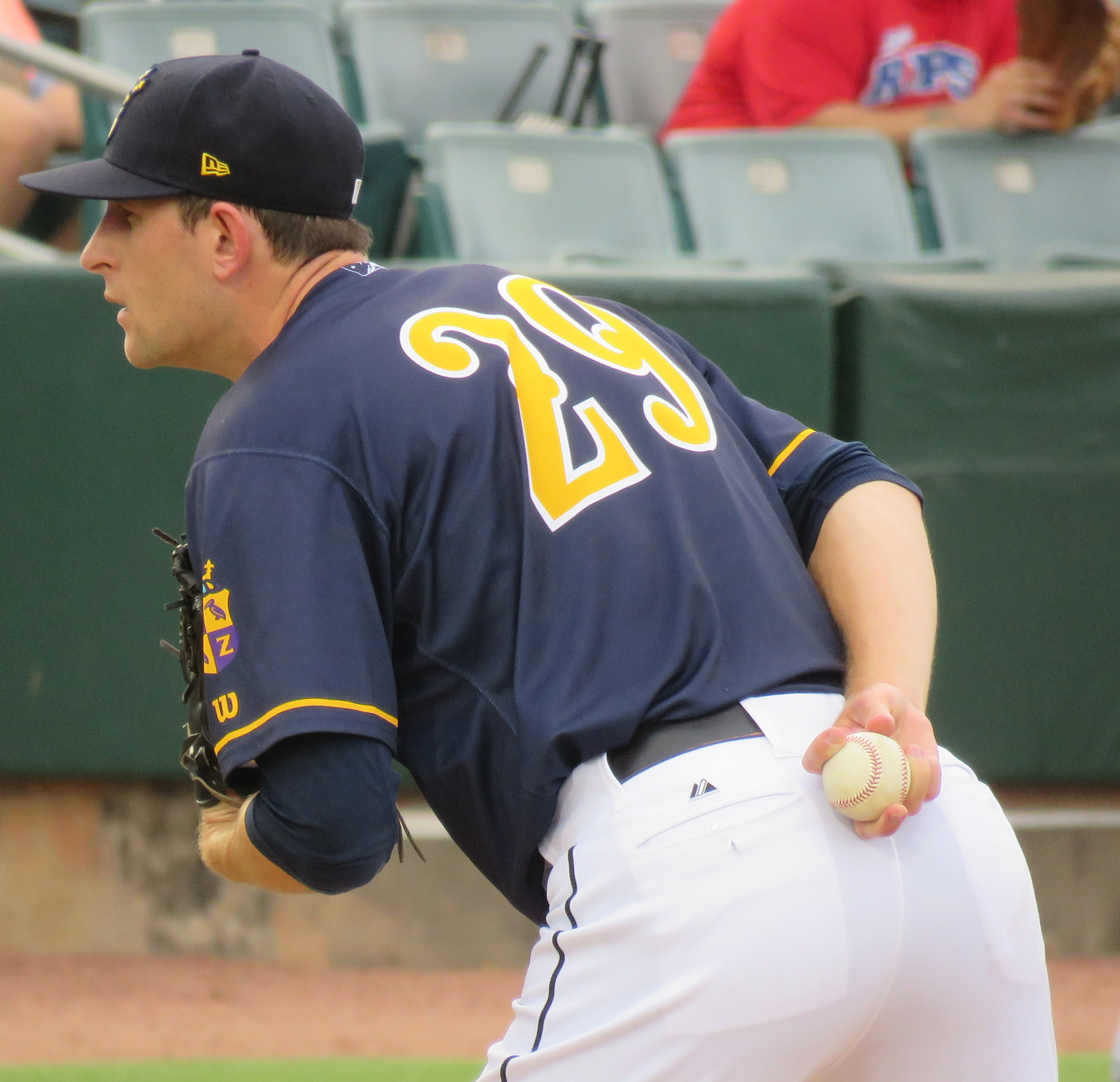 Gunkel ready to pitch